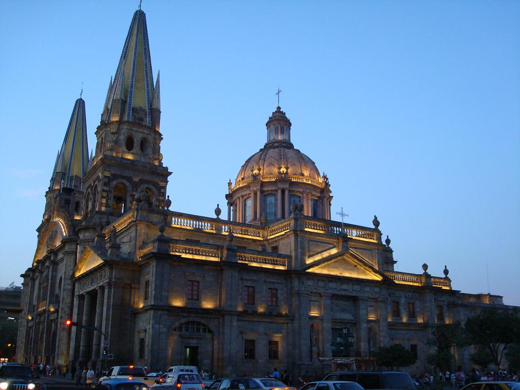 Cathedral of Guadalajara, seen from 16 de Septiembre Ave, at evening.